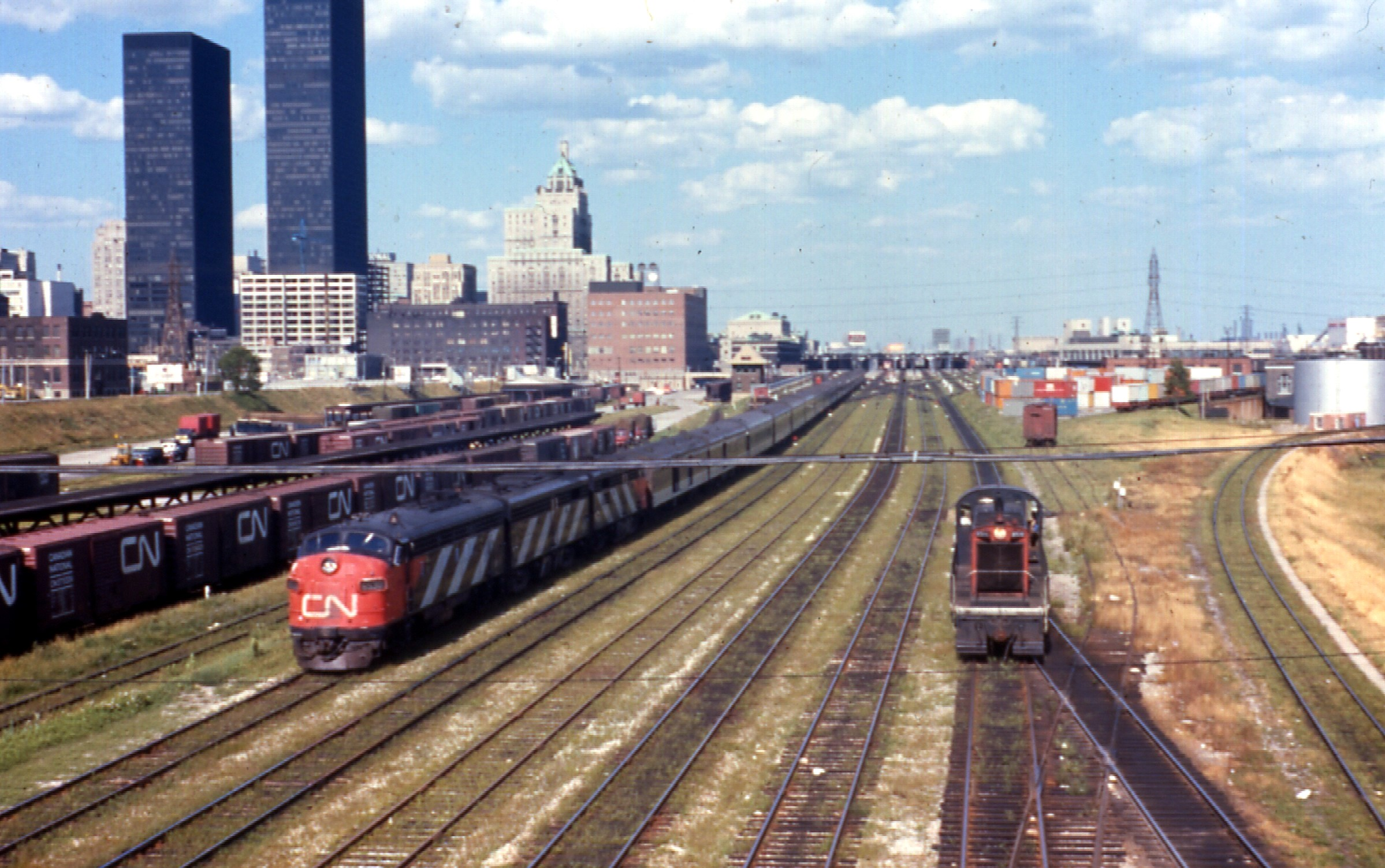 Railway lands in Toronto, Ontario, Canada. CN Flagship Train "Super Continental" ran in two sections in summer between Toronto and Vancouver and Montreal and Vancouver. During the off season the trains would be combined/separated at Capreol, Ontario. Although it promised dome service Toronto to Vancouver, in actuality the former Milwaukee Road full length domes only operated between Jasper, Alberta and Vancouver. The Super Continental took a northerly route across Ontario to Winnipeg and thence to Saskatoon, Edmonton and Vancouver.